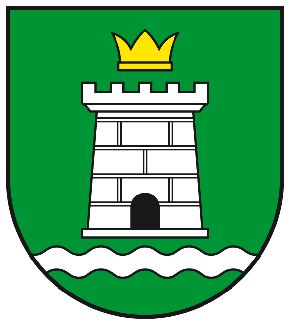 Coat of Arms of Süpplingenburg